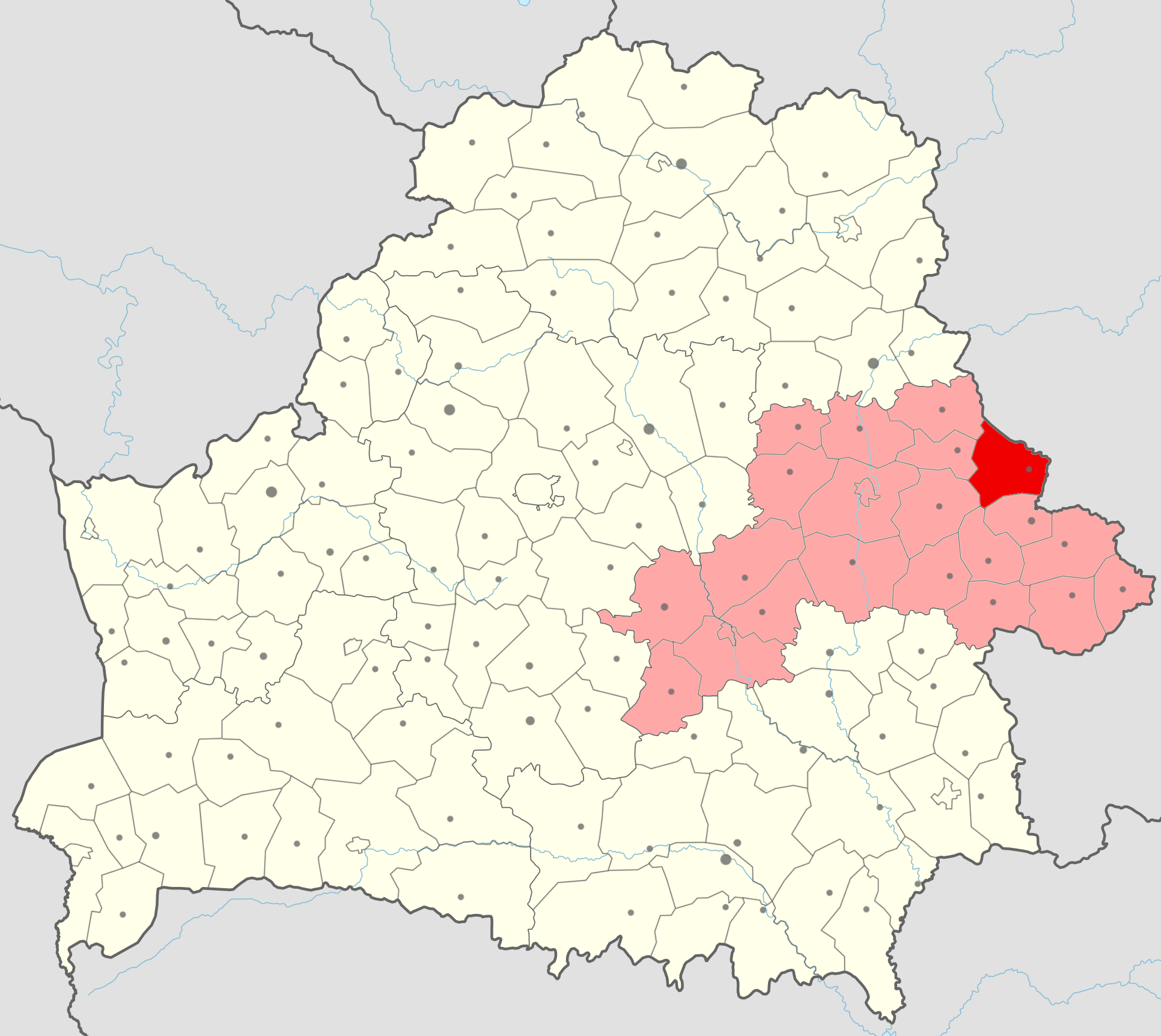 Location of Mscislaŭski rajon (red) in Mahilioŭskaja voblasć (light red) in Belarus.